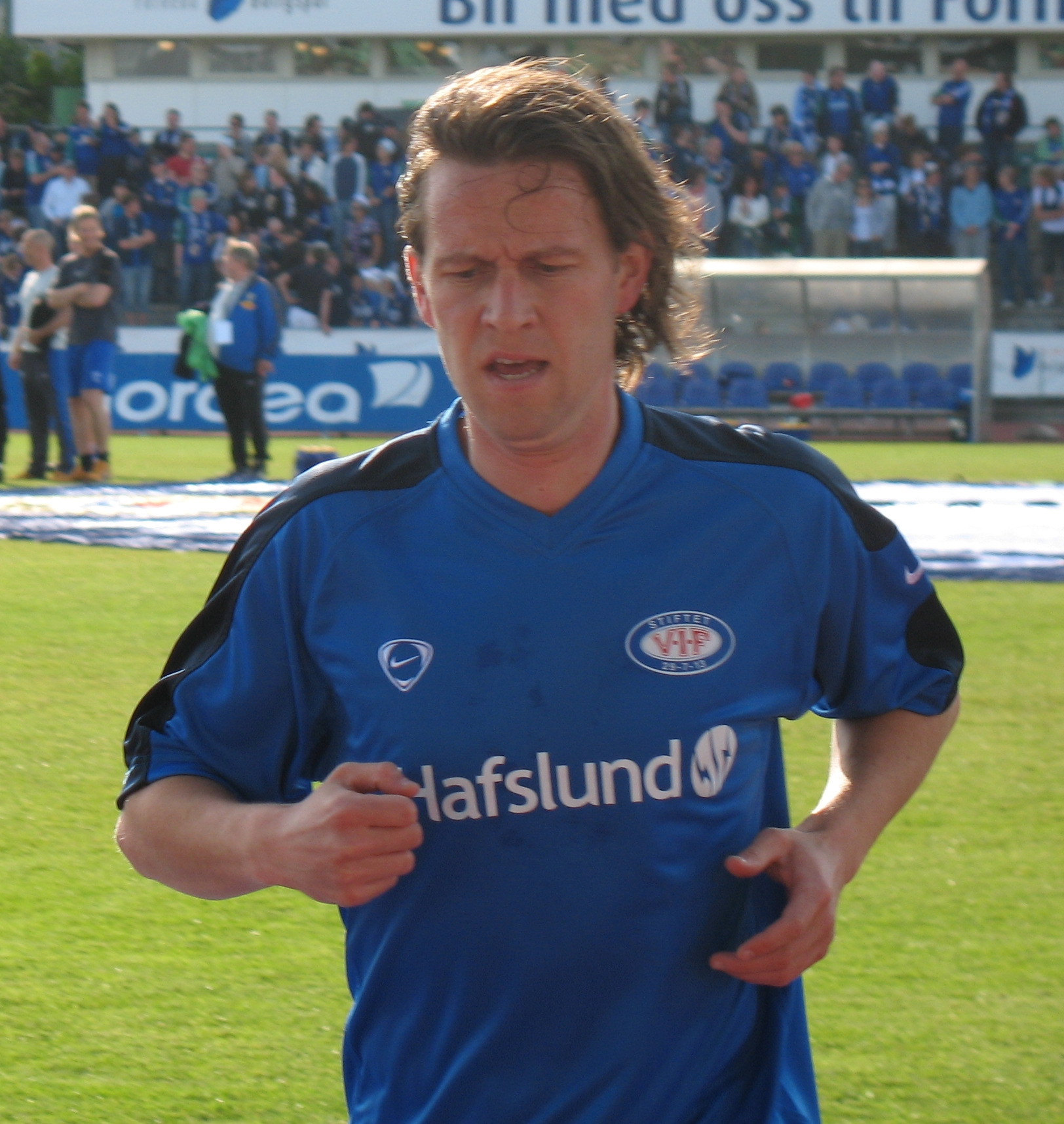 Norwegian footballer Morten Berre.